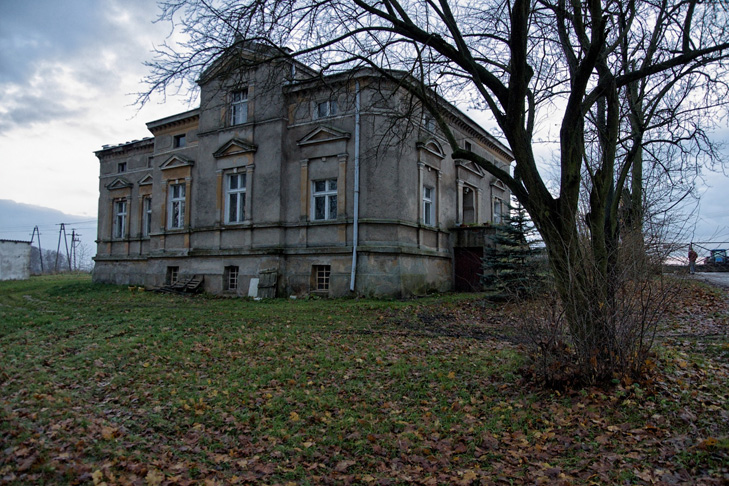 Jerzyn dwór von Brandisów